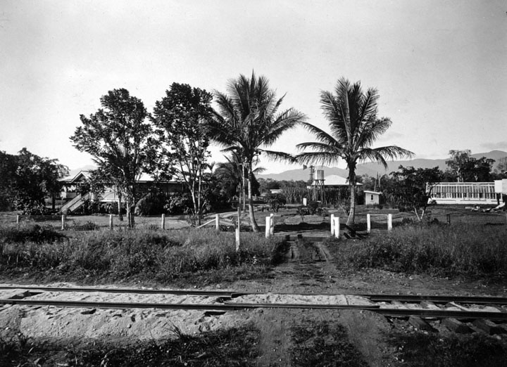 Sugar Experiment Station, Meringa, near Cairns. (The Australian Bureau of Sugar Experimental Stations imported about 100 toads from Hawaii to the Meringa Experimental Station near Cairns and more than 3000 were released in the sugar cane plantations of north Queensland in July 1935.)